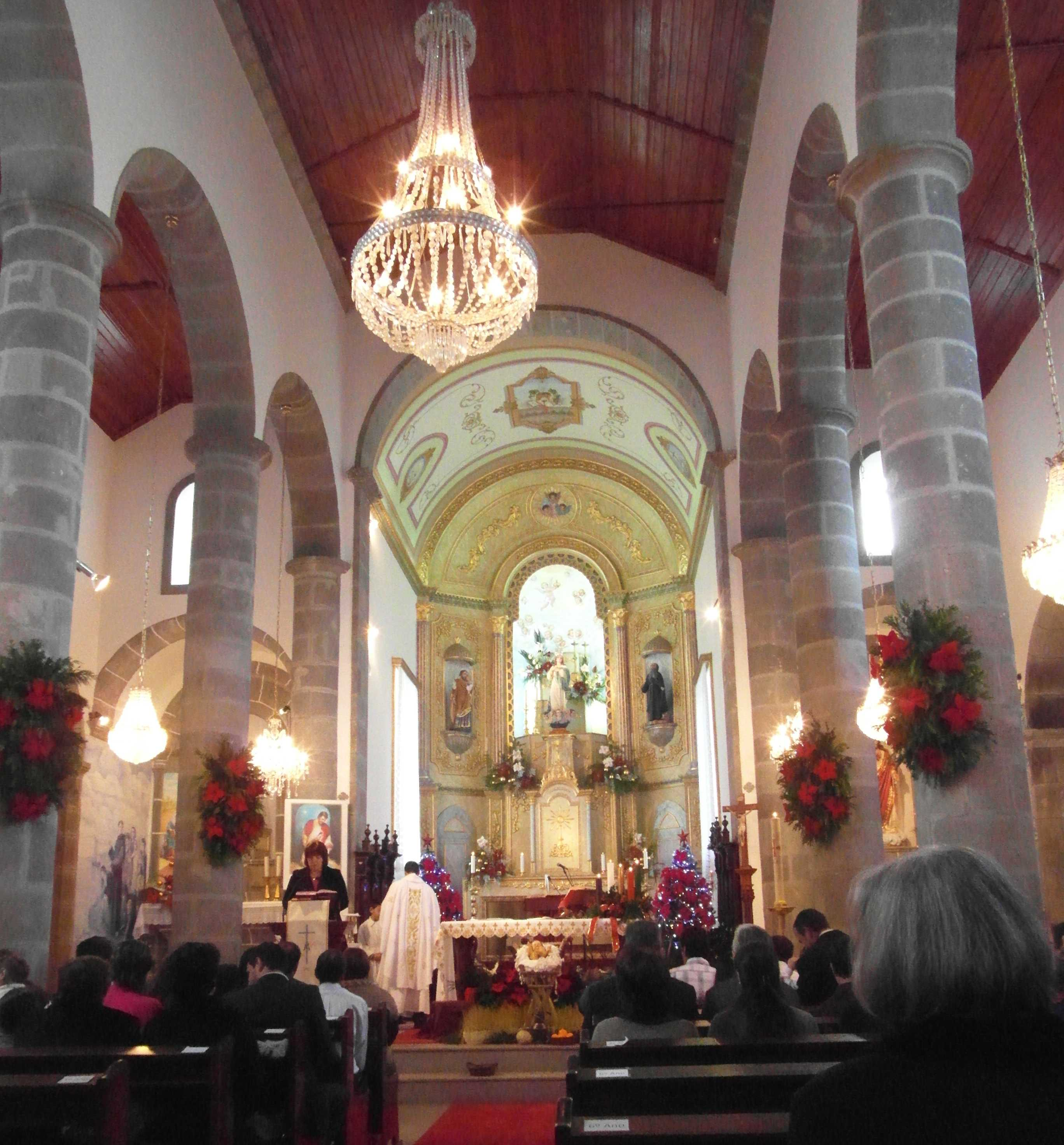 Conceição